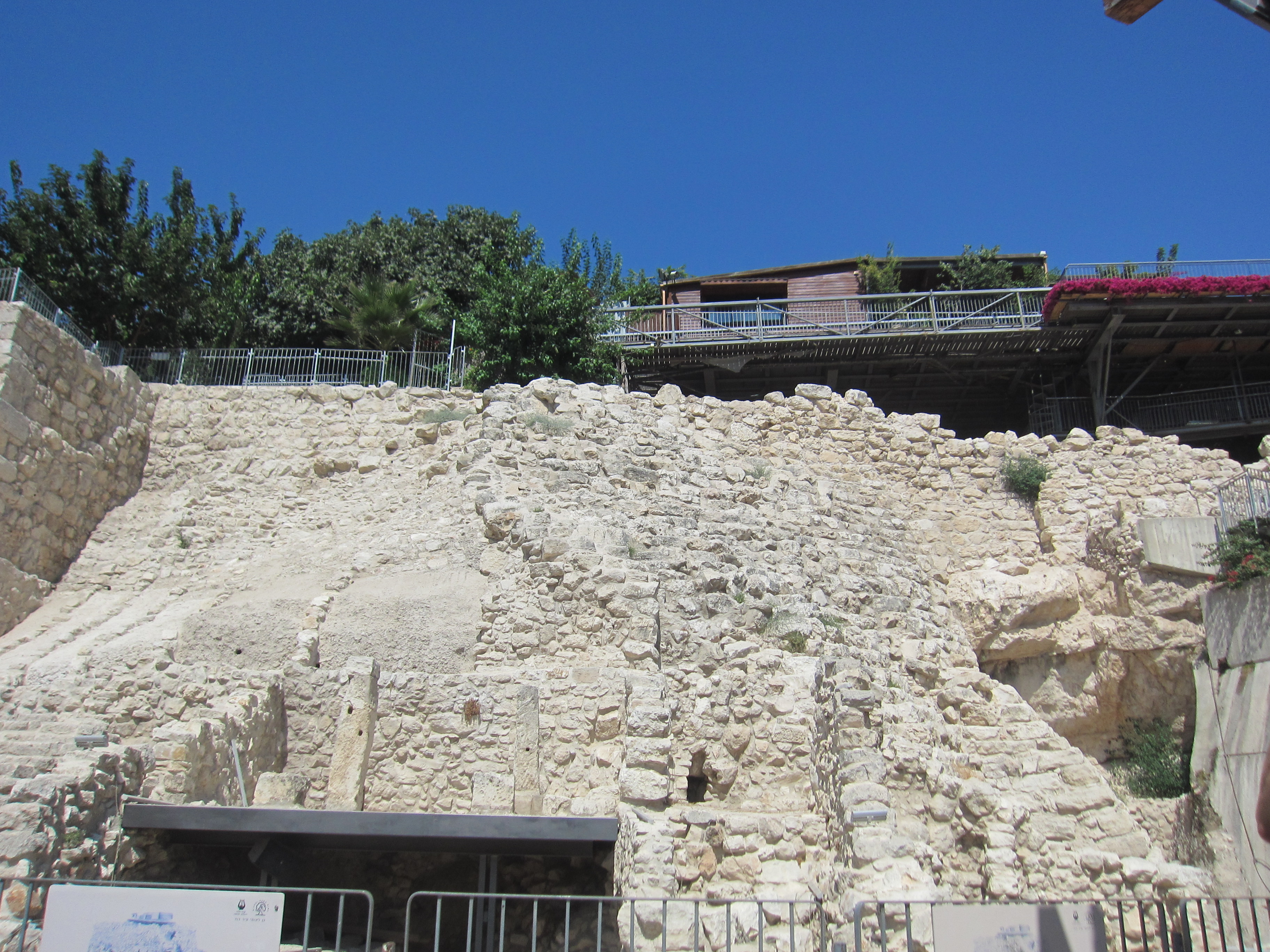 Elef Millim - City of David - JERUSALEM